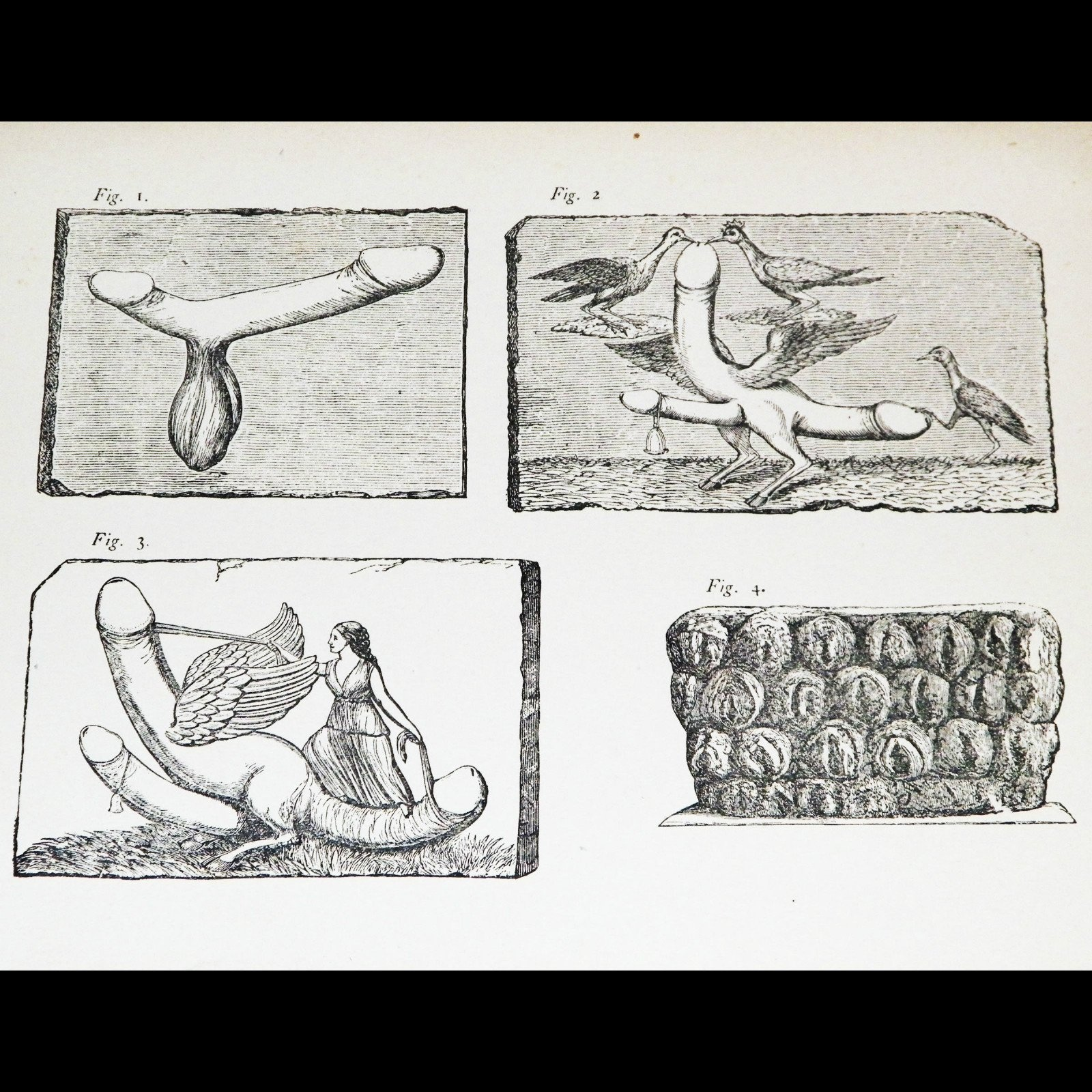 Winged penises etc from Discourse on the worship of Priapus and its connection with the mystic theology of the ancients was written by Richard Payne Knight. It was republished by George Witt in 1865